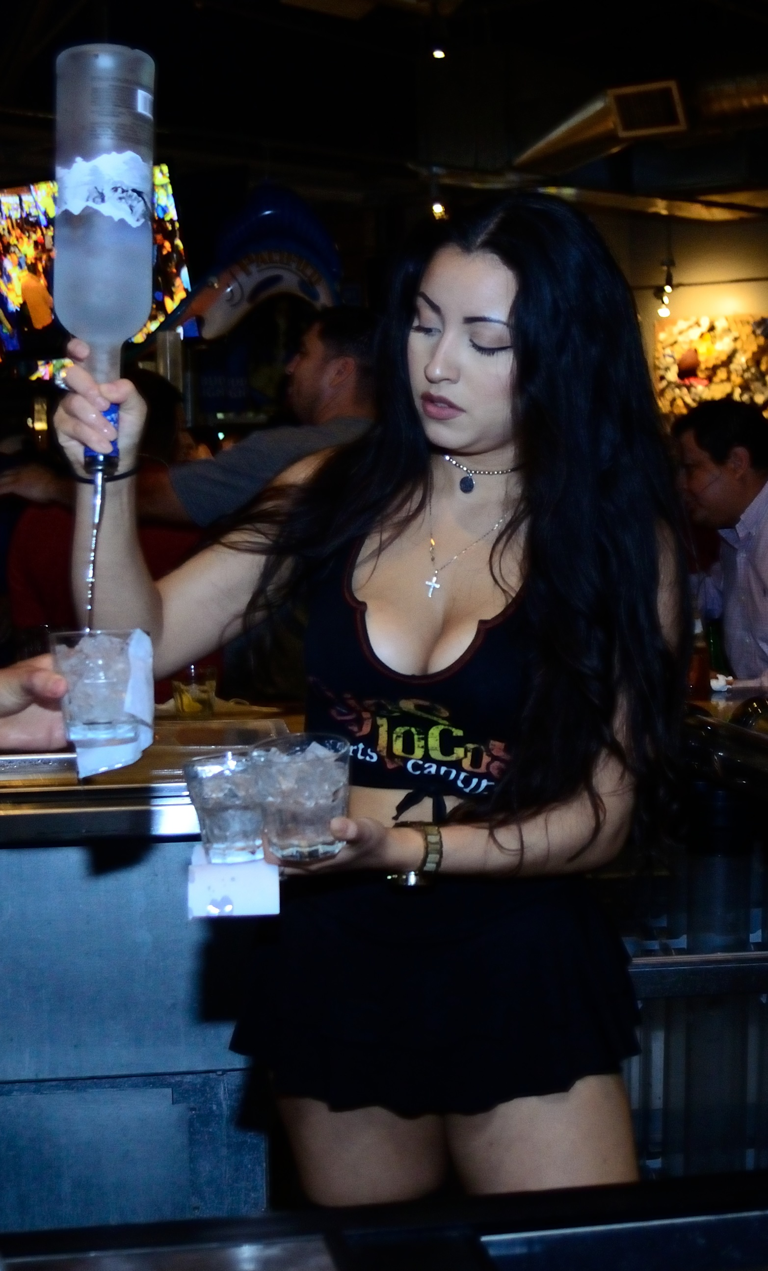 A waitress at Ojos Locos pouring a drink